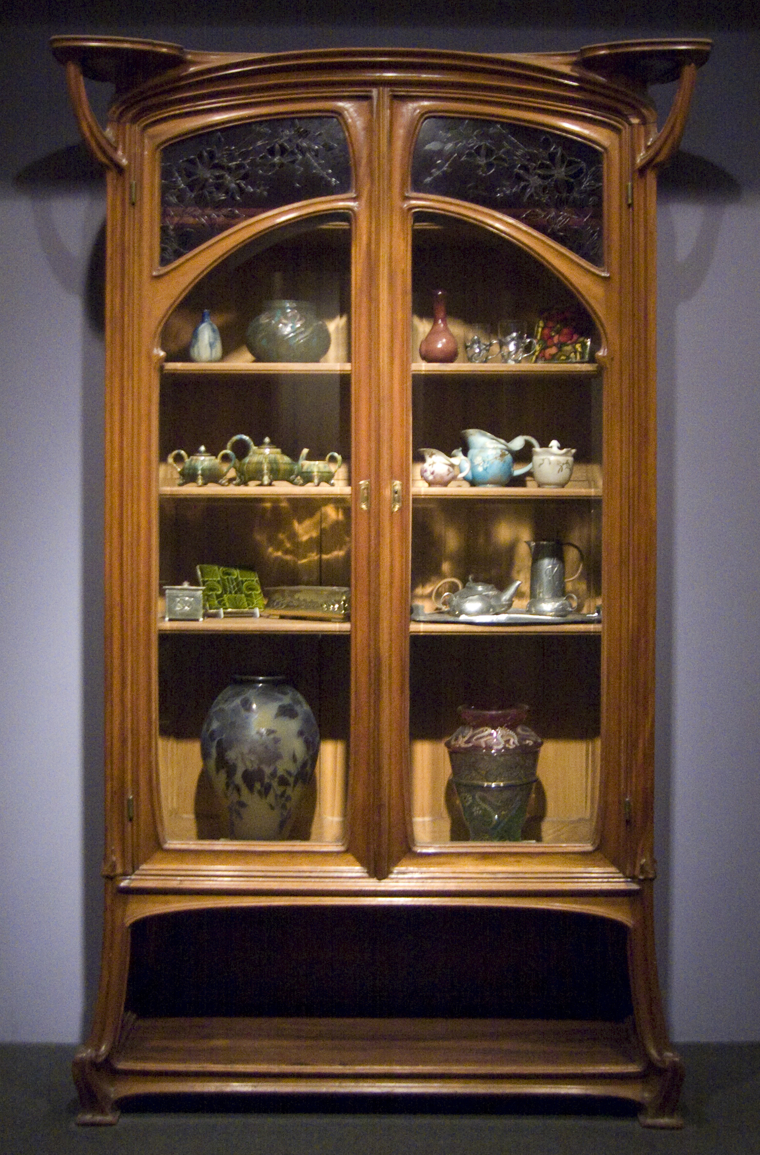 71.77 - Armoir Top shelf, L to R 45.172 45.712 53.257.1 59.203.1-2 45.139.6 Second shelf, L to R 88.158.1-.3 88.153.1-.3,+.6 Third shelf, L to R 2001.90.6 2005.84.4 2001.90.5 71.71 Bottom Shelf 61.116 41.980.30